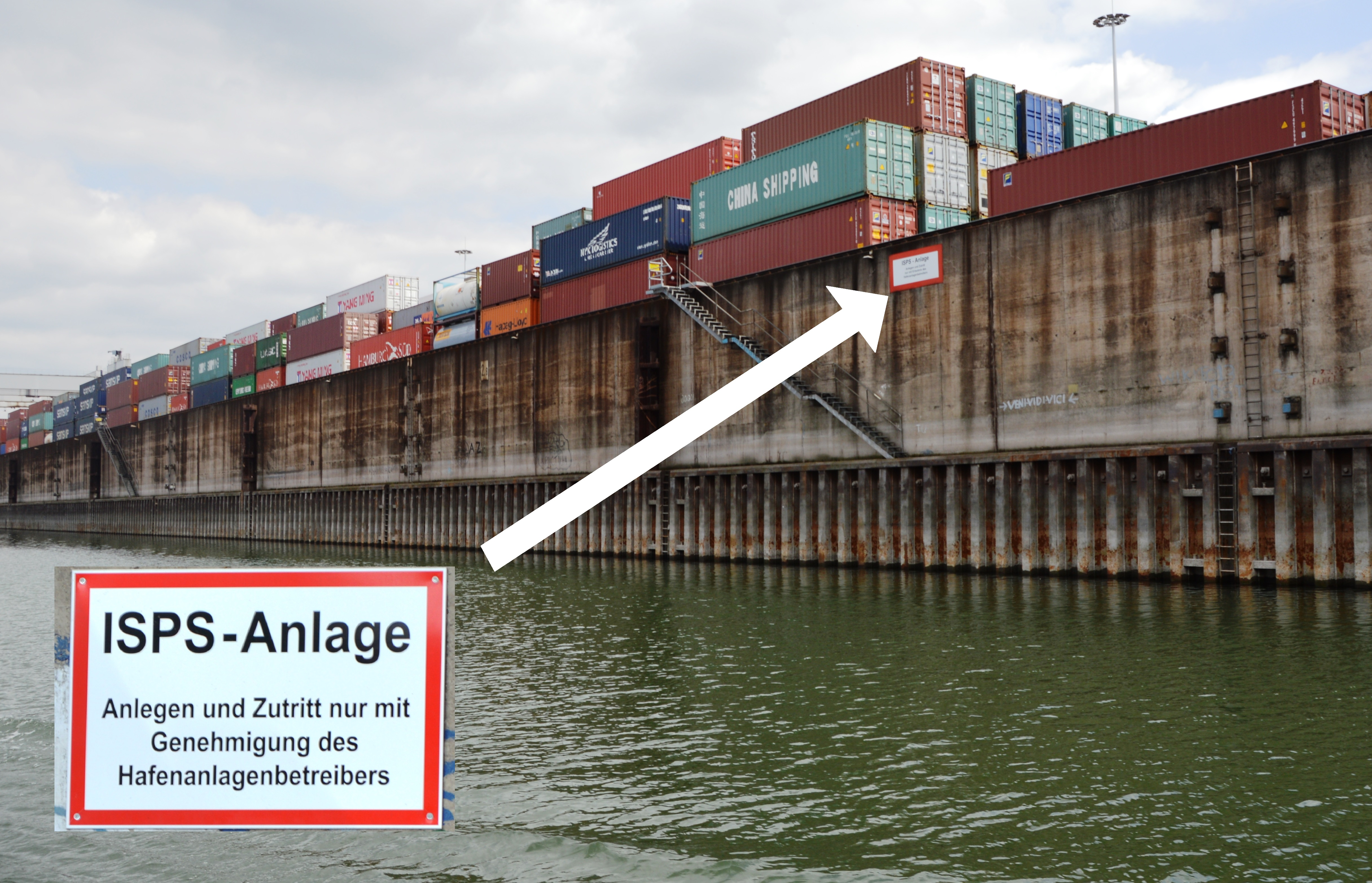 ISPS facility – "Mooring and access only with the permission of the port operator". Photo taken in the port of Duisburg.